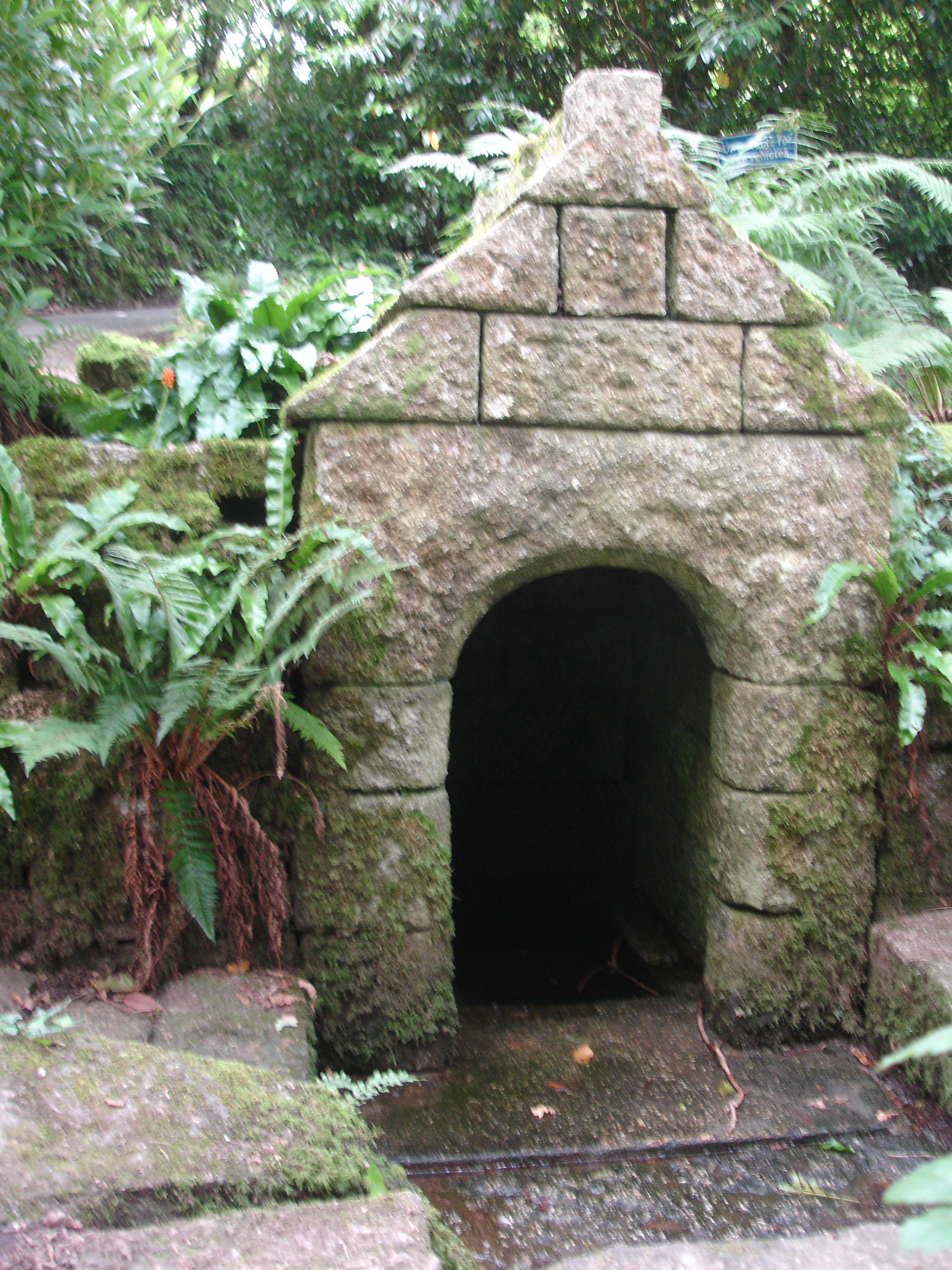 Saint Keyne's Well in Cornwall